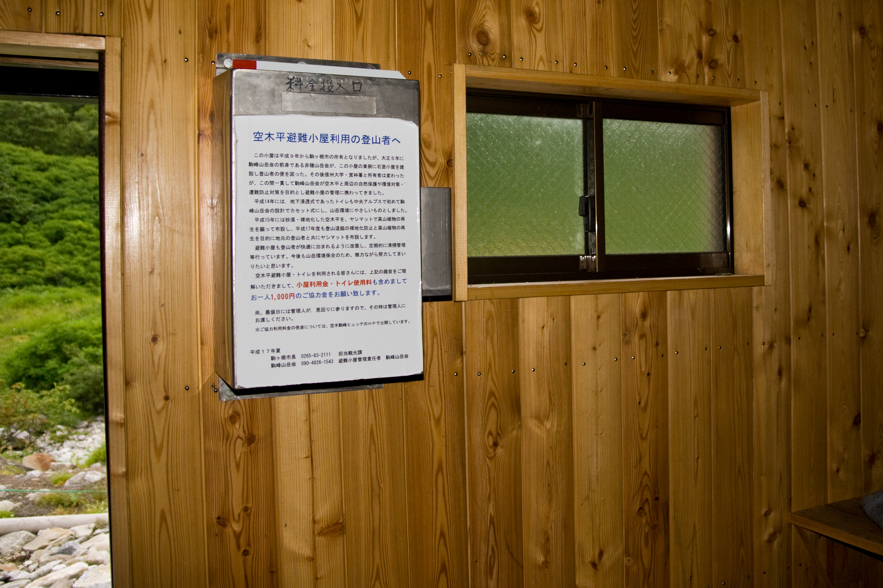 Donation box of Utsugidaira emergency hut (空木平避難小屋 Utsugidaira-hinan-goya), Komagane city, Nagano prefecture, Japan.